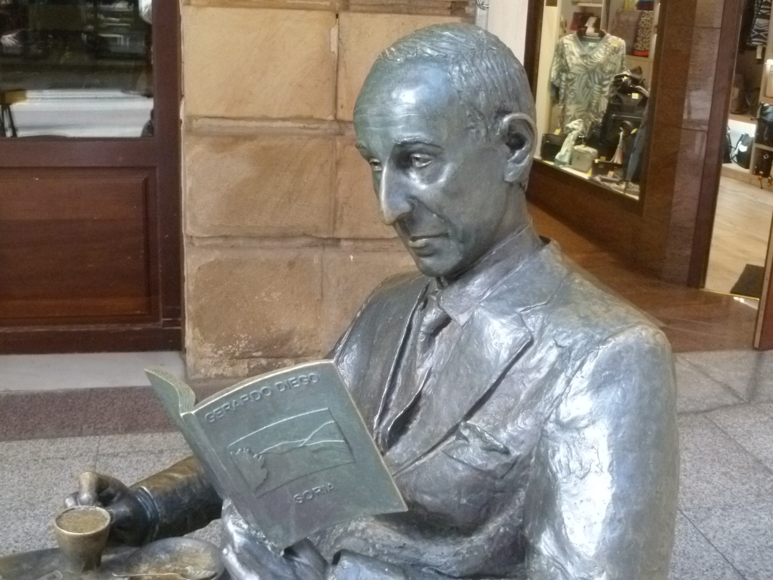 Sculpture of Gerardo Diego; Soria, Spain